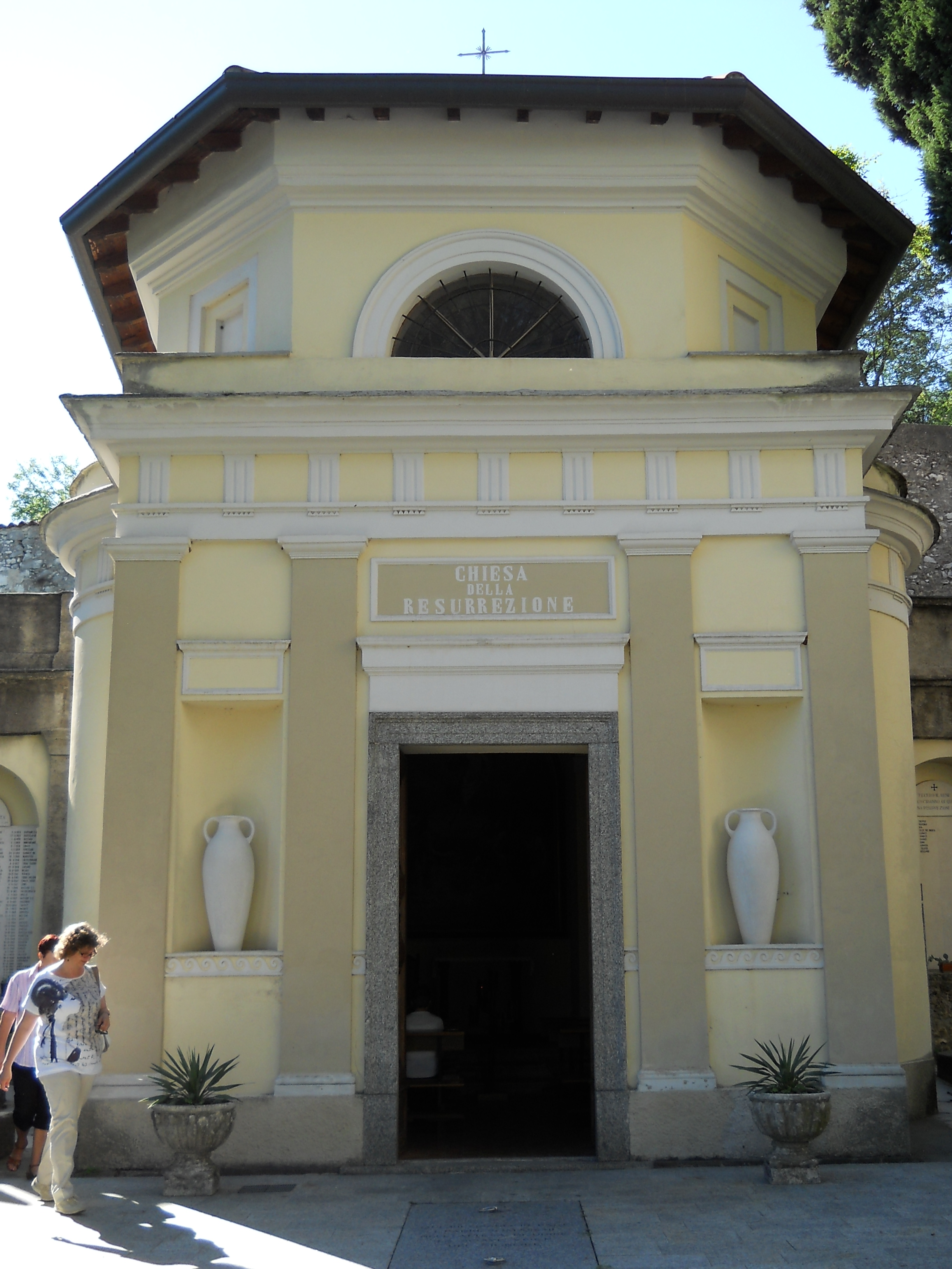 Church of the Resurreption, Sanctuary of Valletta, Somasca, Vercurago, Lecco, Italy